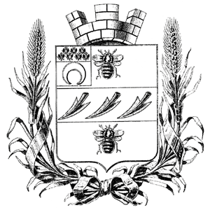 Coat of Arms of Pishpek, Russian Empire, 1908.